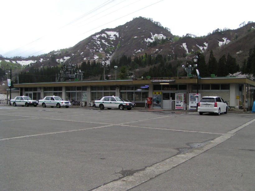 Tadami Station, Tadami, Minamiaizu District, Fukushima, Japan